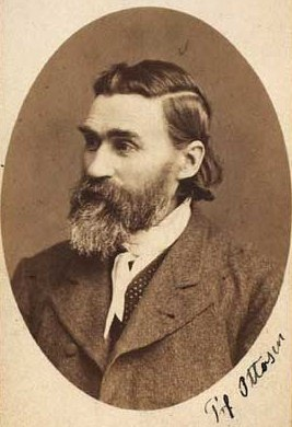 Otto Diderich Ottesen (1816-1892), Danish painter of flowers